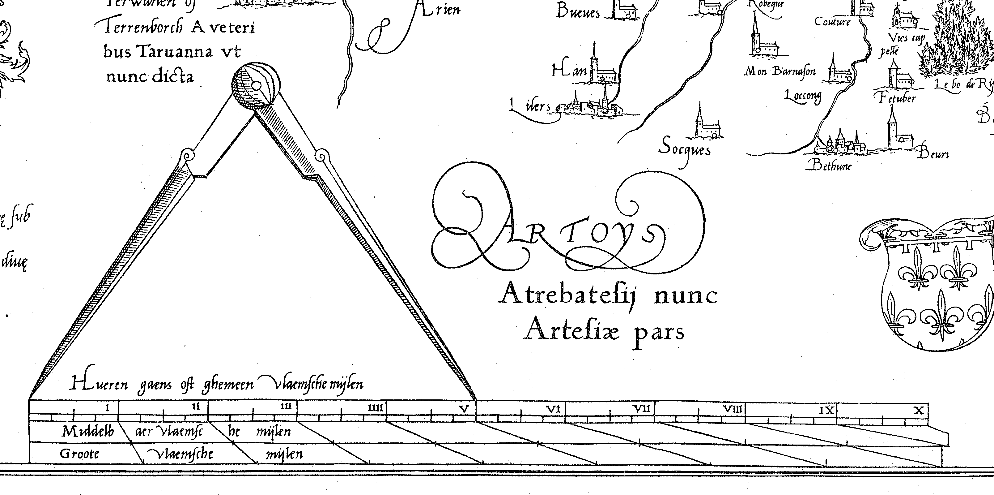 Extraction of Exactissima flandria descriptio.png showing the scale used on the map.